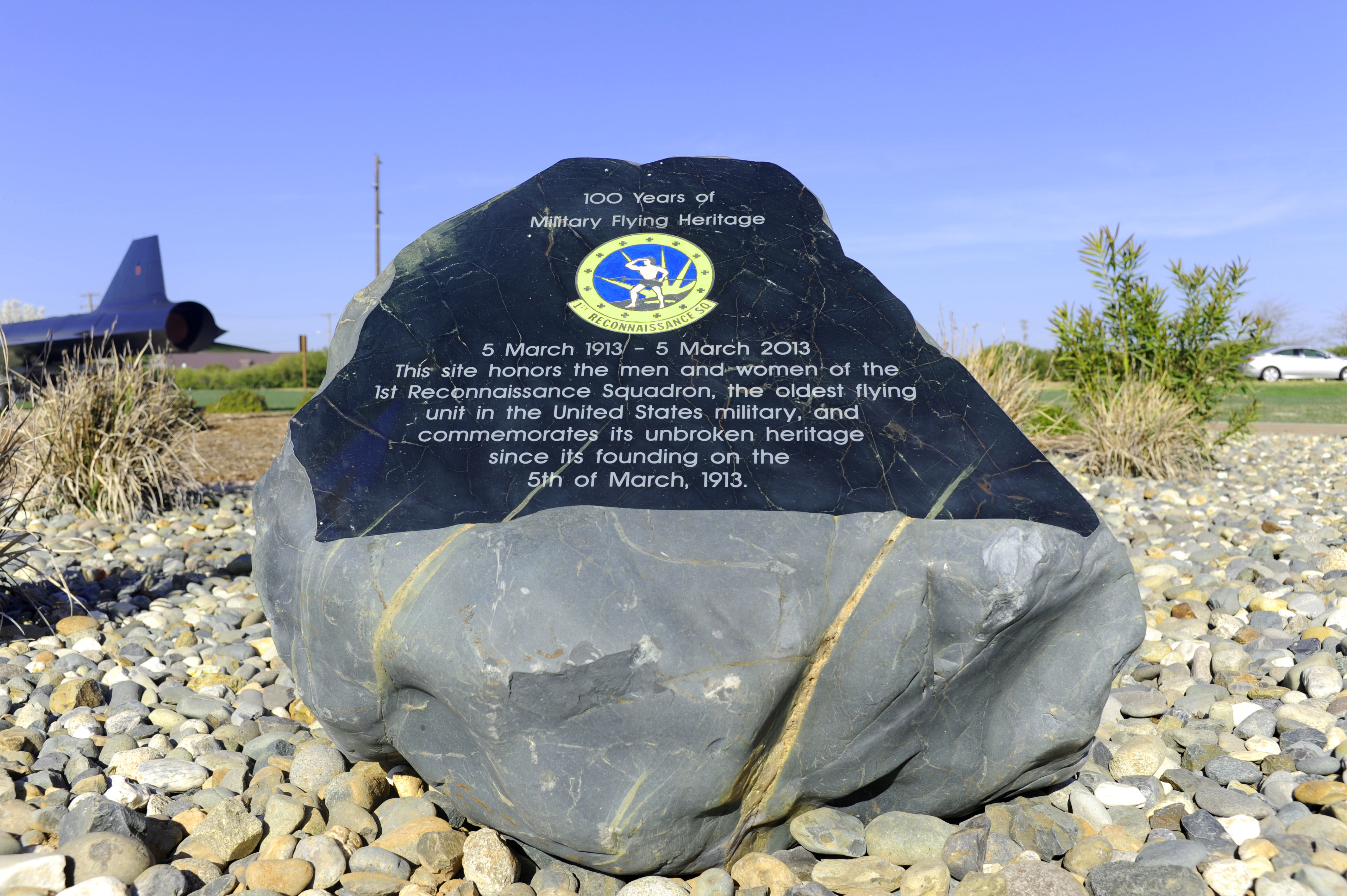 Plaque presentation commemorates centennial This plaque was unveiled March 8, 2013, on Beale Air Force Base, Calif., celebrating the 100 year anniversary of the 1st Reconnaissance Squadron. The plaque unveiling was just one of the many events honoring the squadron’s 100 years of aviation history. (U.S. Air Force photo by Airman 1st Class Bobby Cummings/Released)